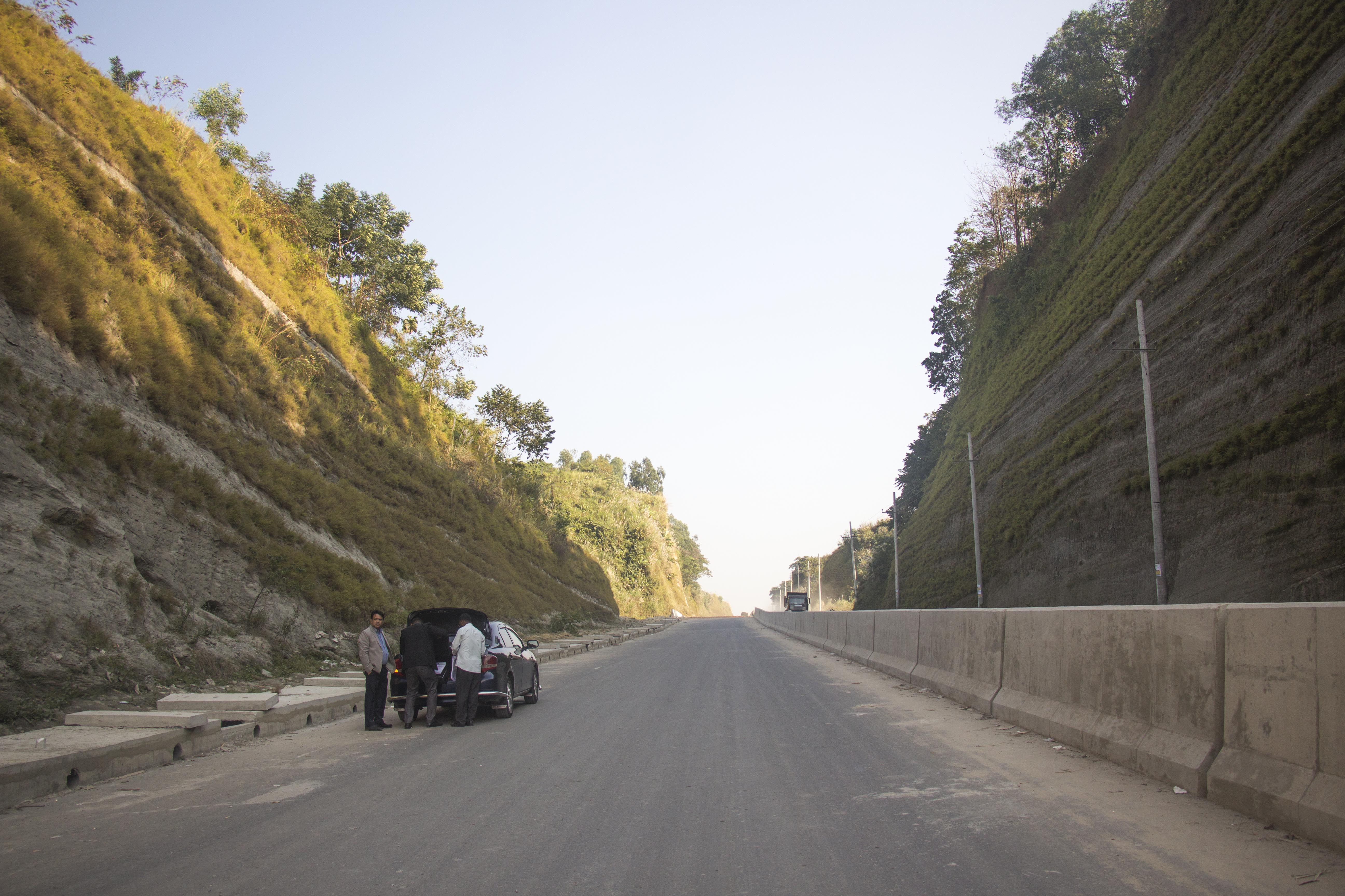 This is an image of Bayezid Link Road in Chittagong. This road connects Faujdarhat to Shershah.